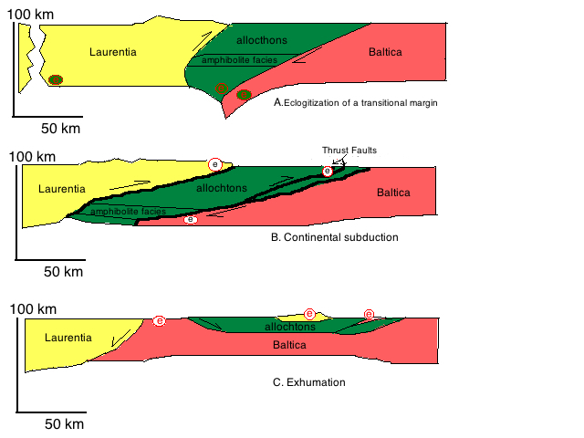 Cross Section Showing a progressive time span of the tectonic evolution of an eclogite terrain